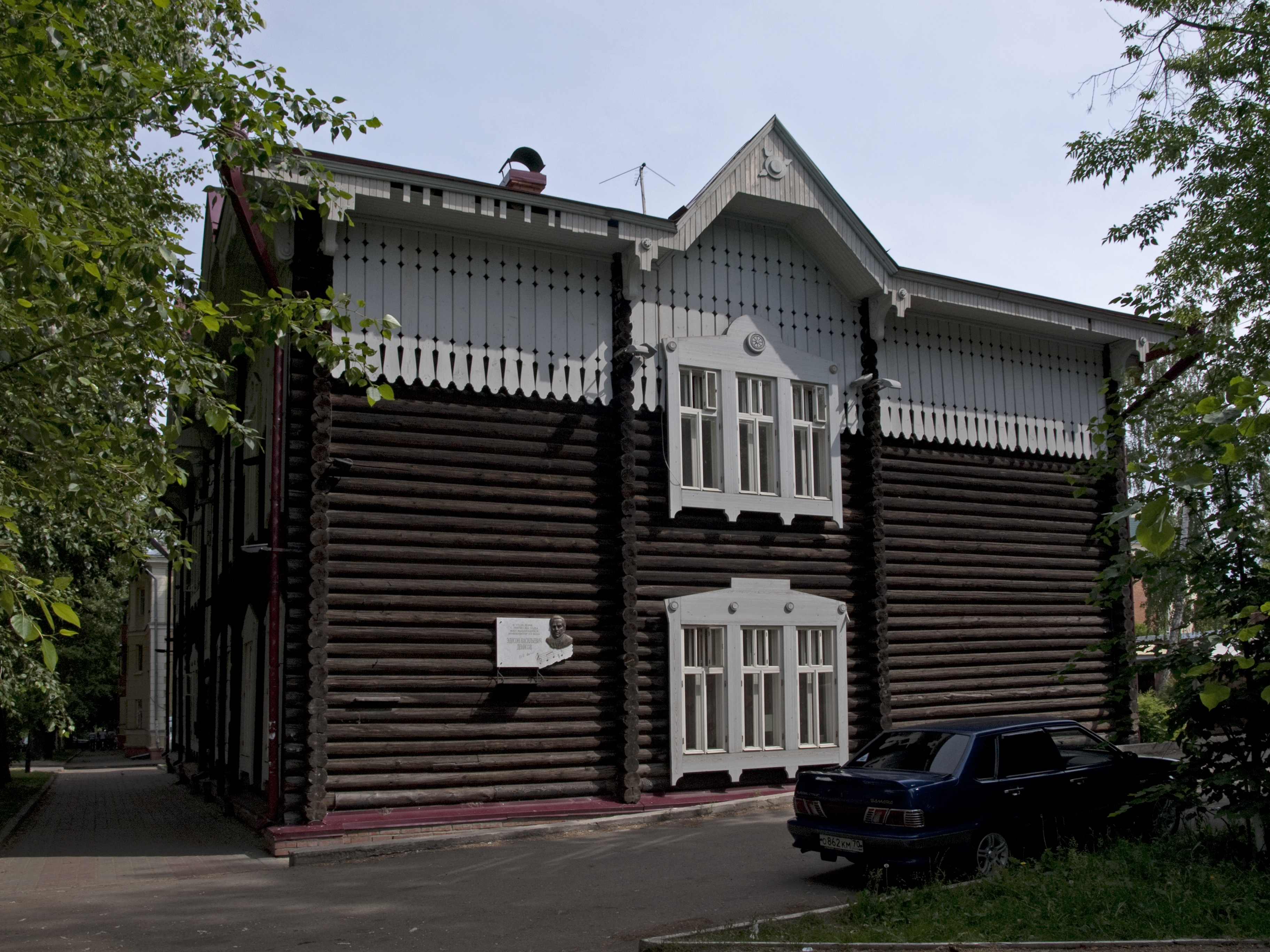 Kuznetsova Street 30, Tomsk, southern side